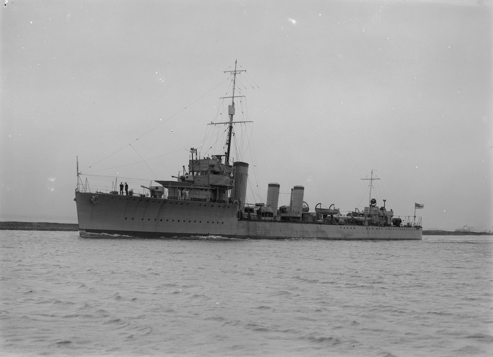 HMAS Anzac.